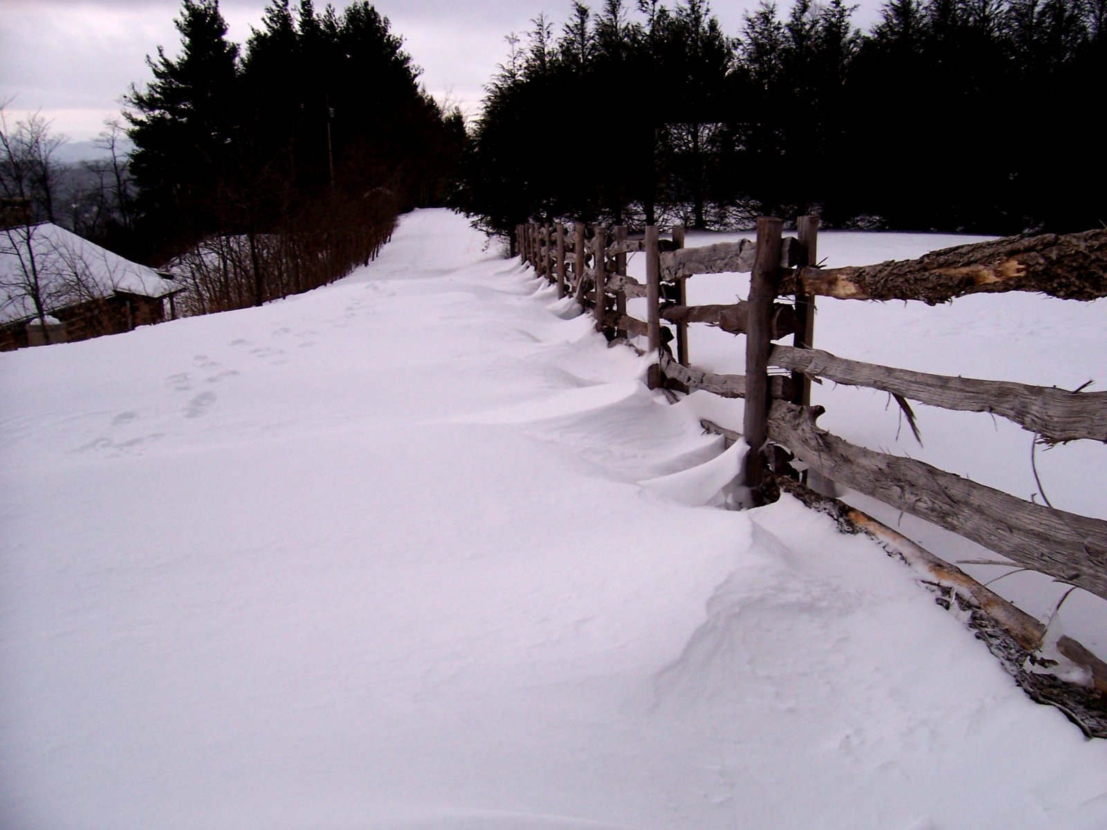 Impassible road in Ashe County, North Carolina